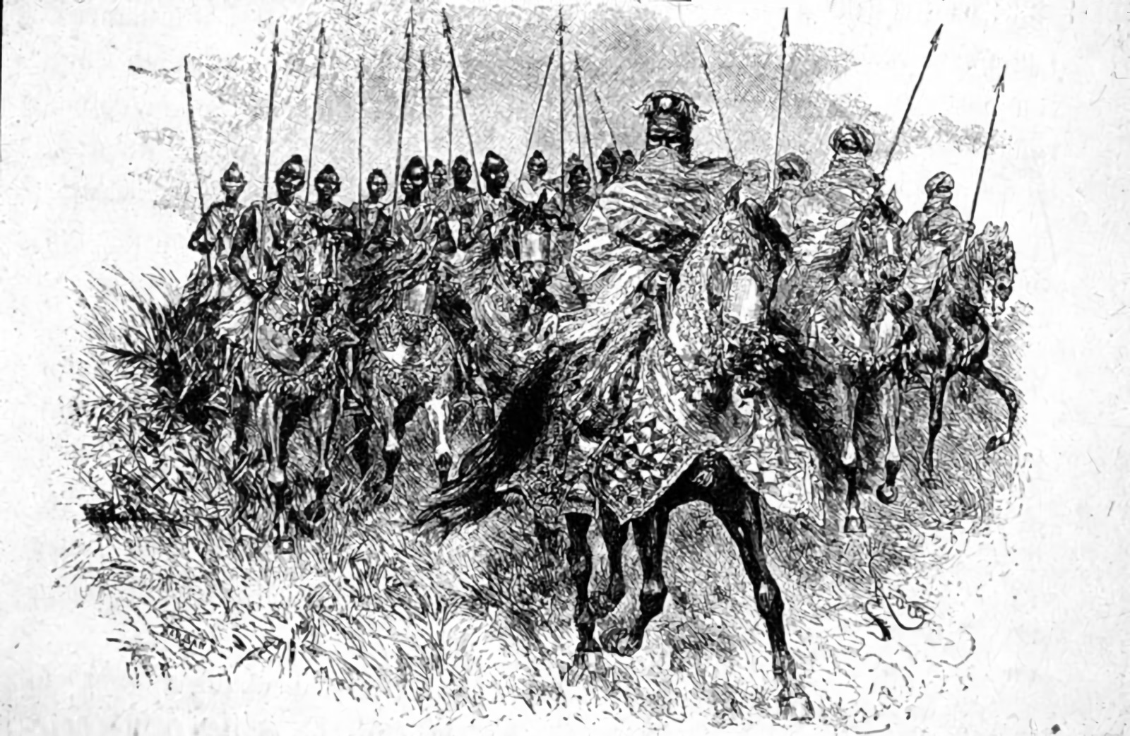 Mossi horsemen Source: Public domain- original production 1890 J.W. Buel. 1890. Heroes of the Dark Continent and How Stanley Found Emin Pasha. A complete history of all the great explorations and discoveries in Africa, from the earliest ages to the present time, including a full, authentic and thrilling account of Stanley's famous relief of Emin Pasha, replete with astounding incidents, wonderful adventures, mysterious providences, grand achievements, and glorious deeds, as represented in the devoted lives and splendid careers of such brilliant characters as Henry M. Stanley, Emin Pasha, Gen. (Chinese) Gordon, and all the other great travellers, hunters and explorers, who, for more than one thousand years, have made Africa a land of wonders by their heroism and unparalleled daring. Covering the whole history of African exploration and discovery. Enlivened with stories of marvellous hunts and wonderful adventures among wild animals, ferocious reptiles, and curious and savage races of people who inhabit the dark continent. New Edition. Philadelphia, PA, St. Louis, MO: Historical Publishing Company.